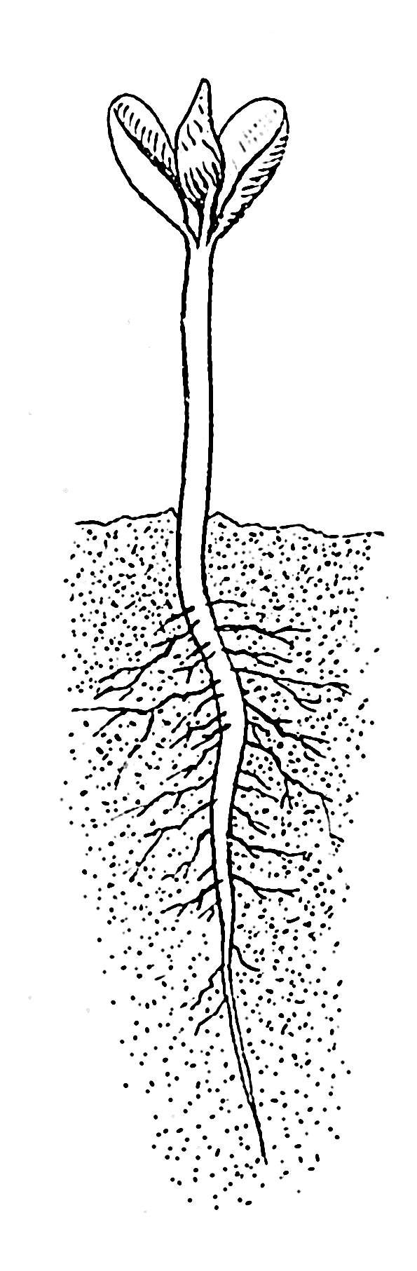 b/w line drawing of a cotyledon